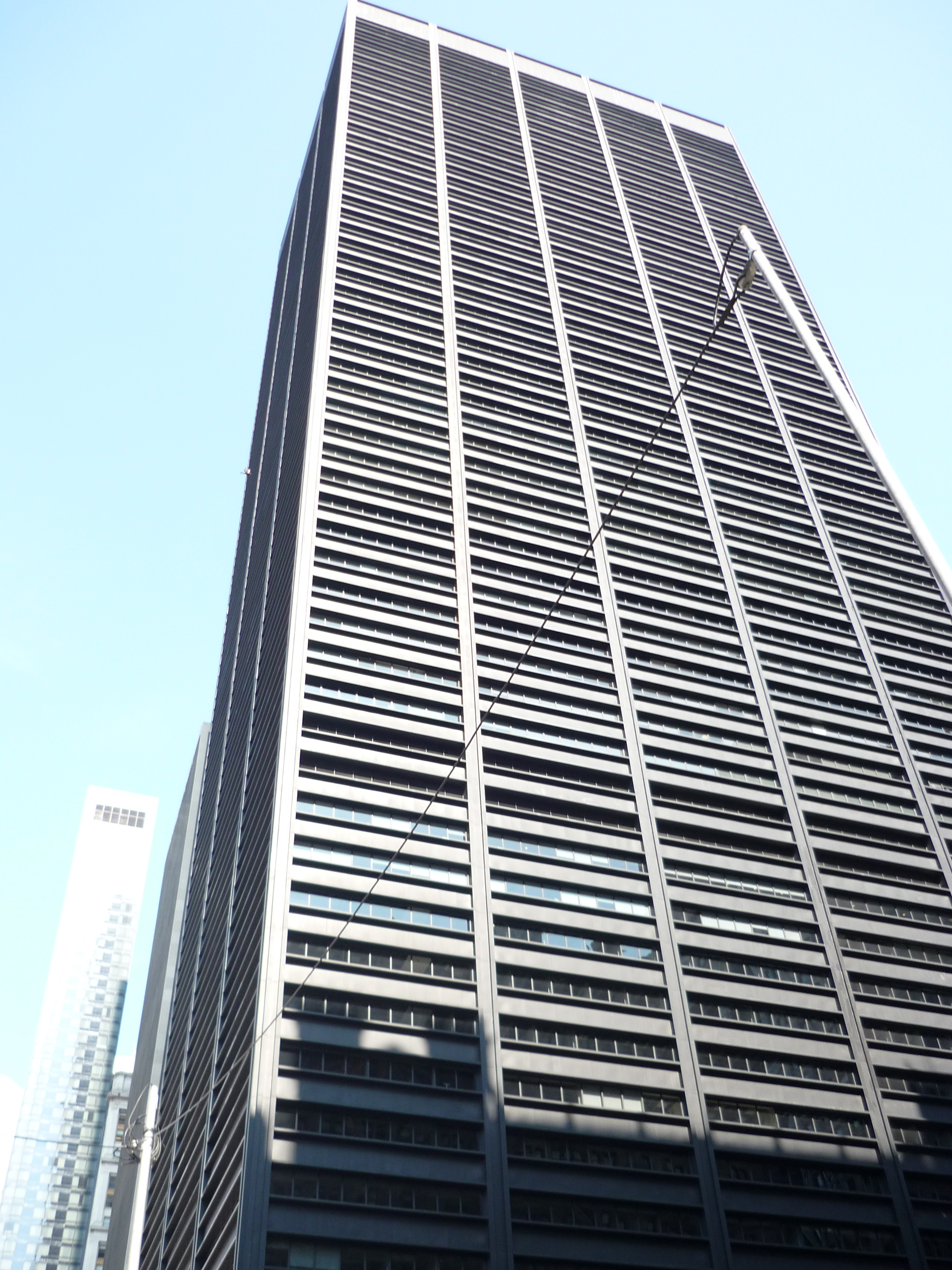 This photo is of Wikis Take Manhattan goal code H14, One Liberty Plaza.